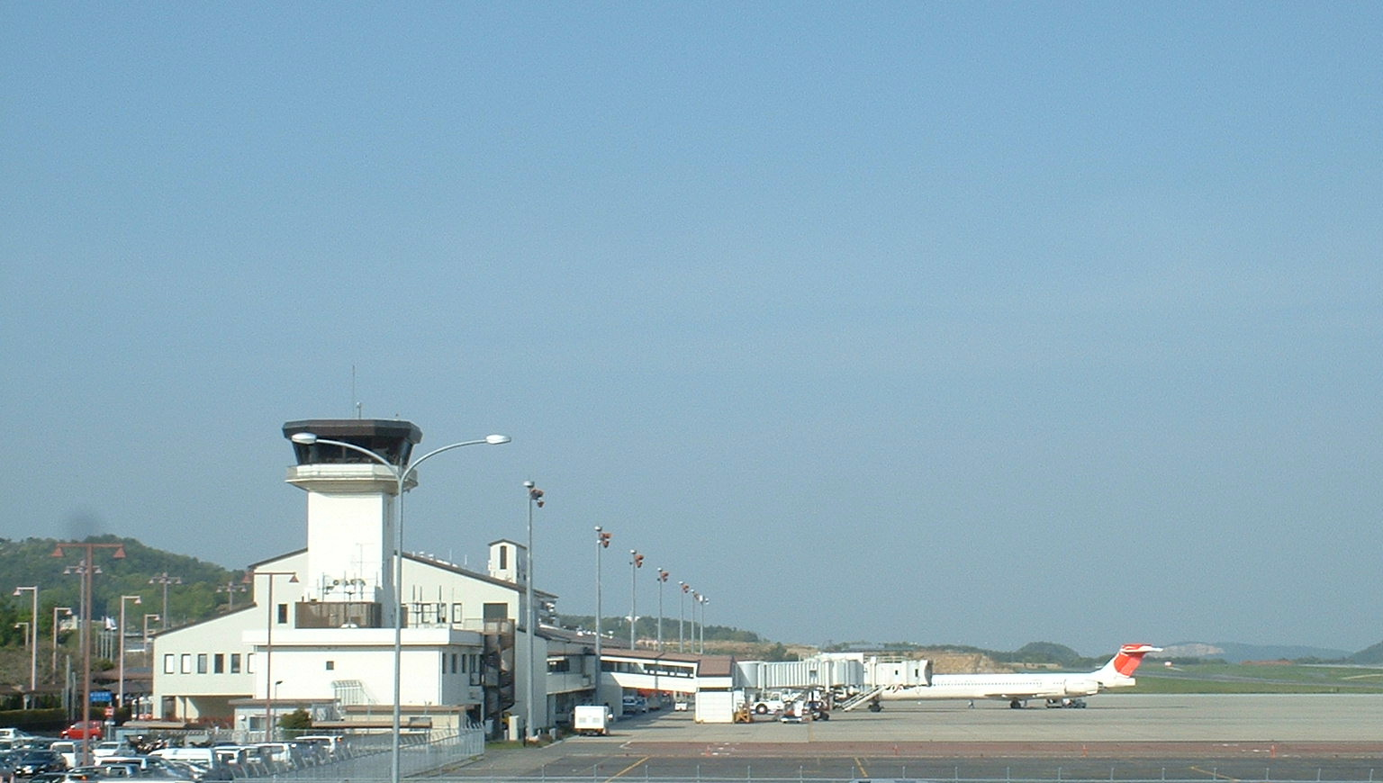 A contributor photographs it in Japanese Okayama Airport on May 4, 2006.